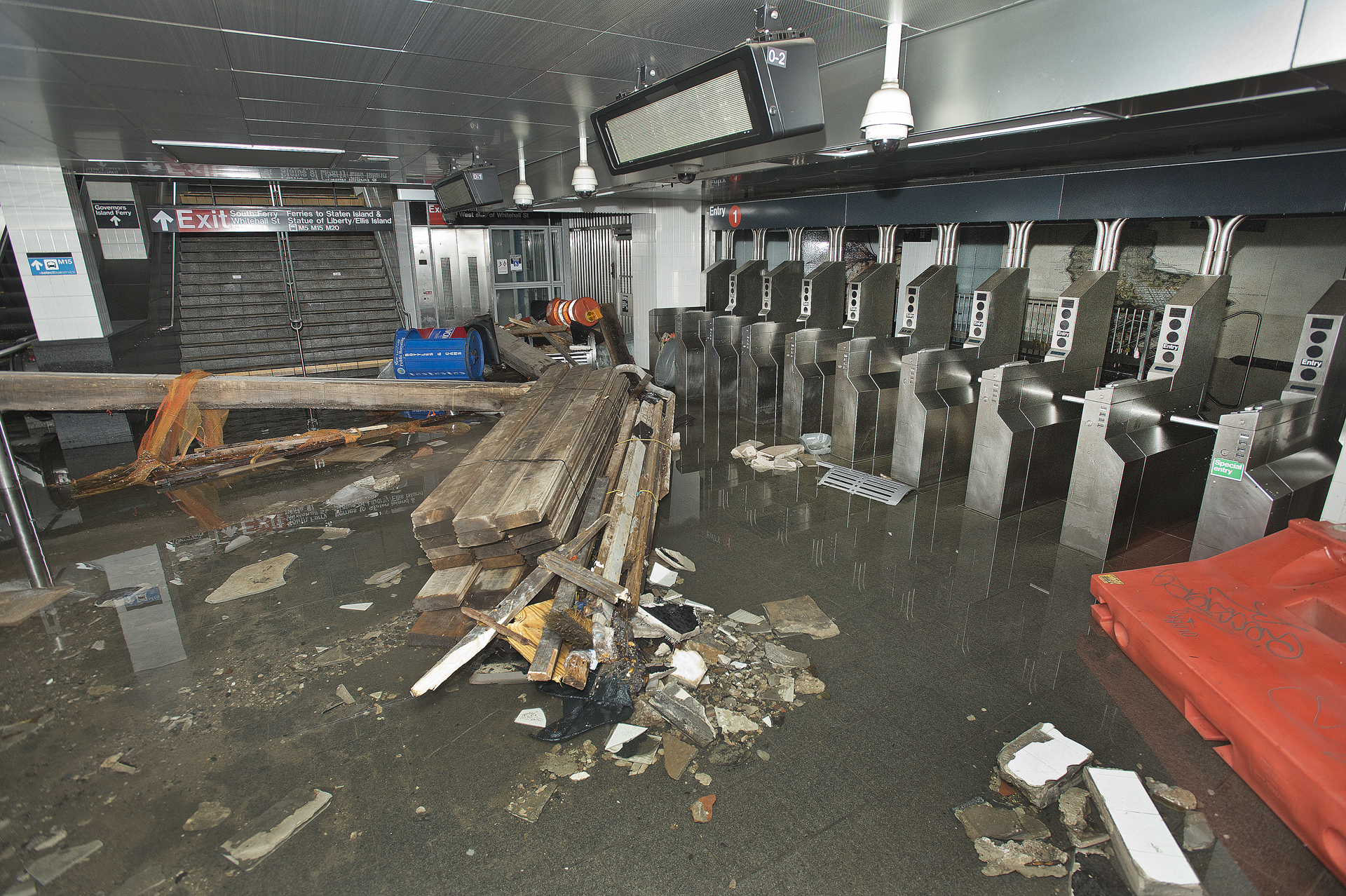 Employees from MTA New York City Transit worked to restore the South Ferry subway station after it was flooded by seawater during Hurricane Sandy. Photo: Metropolitan Transportation Authority / Patrick Cashin.